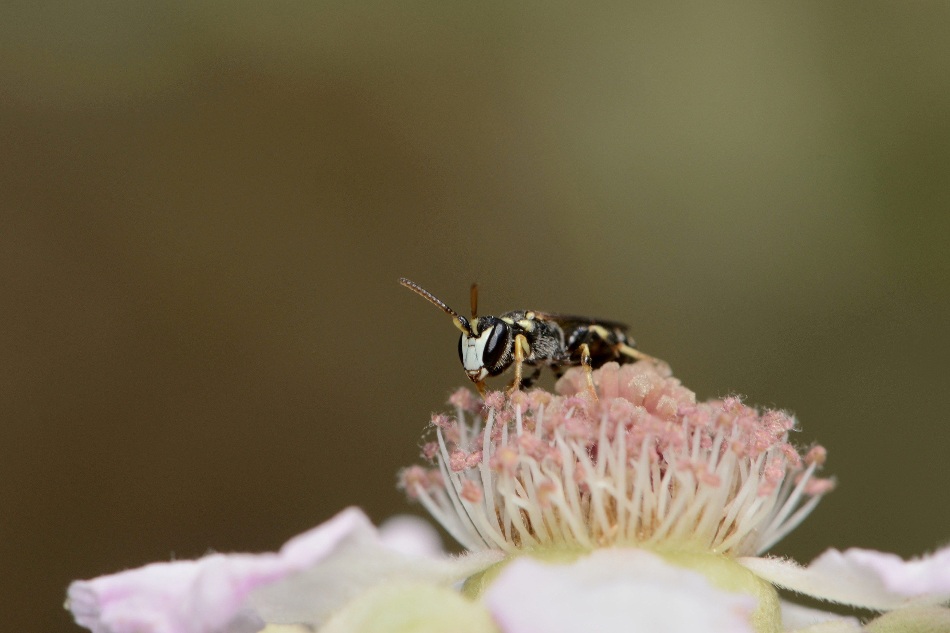 Hylaeus rubicola, male standing on a Rubus sanguineus flower, 'En Kedem, Mount Carmel, Israel, September 11, 2012.